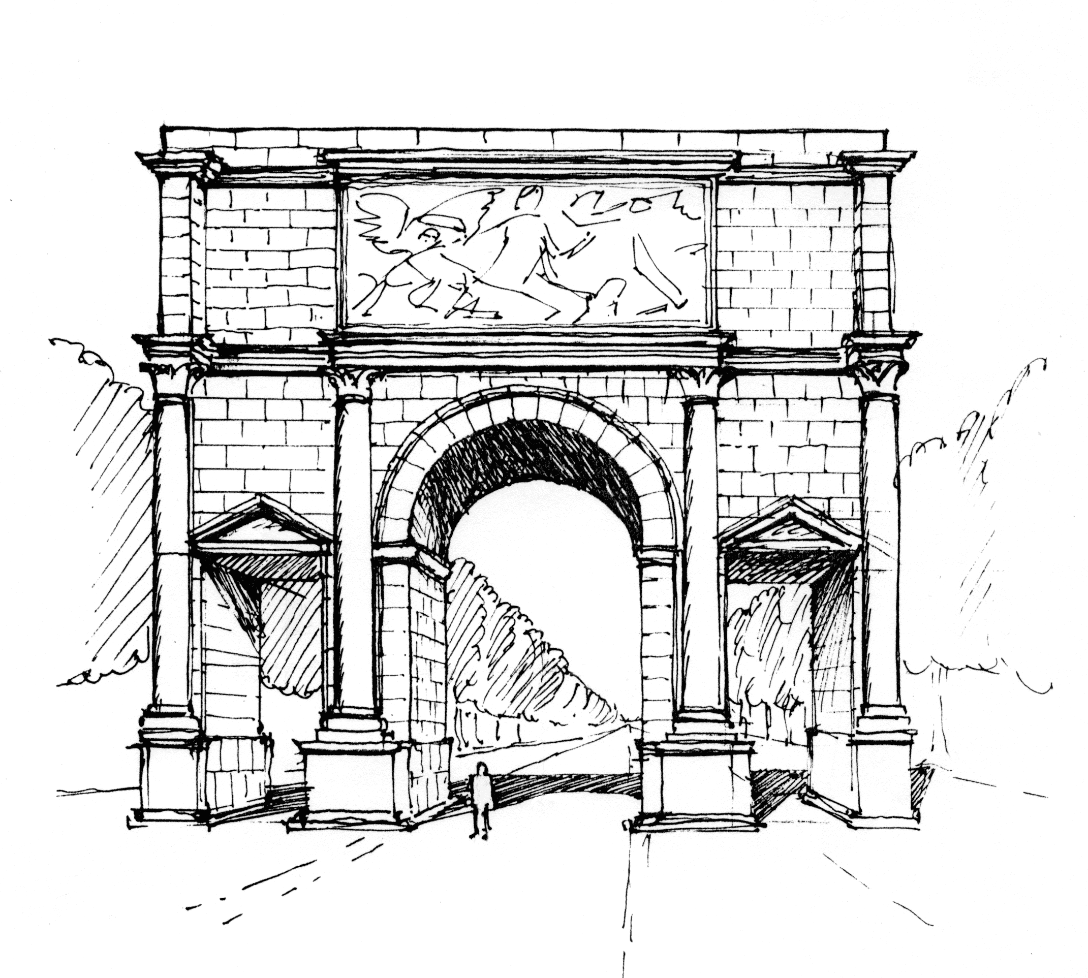 Roman triumphal arch at Mainz-Kastel, Germany. Reconstruction based on proven findings of excavations. This sketch follows an isometric drawing of the "Museum Römischer Ehrenbogen". The image has been drawn up with the aid of a photo from the very similar looking triumphal arch at Orange, France.